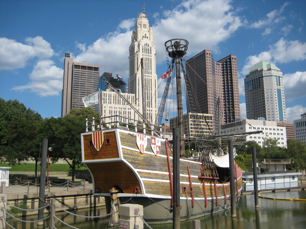 Santa Maria and the Columbus Skyline